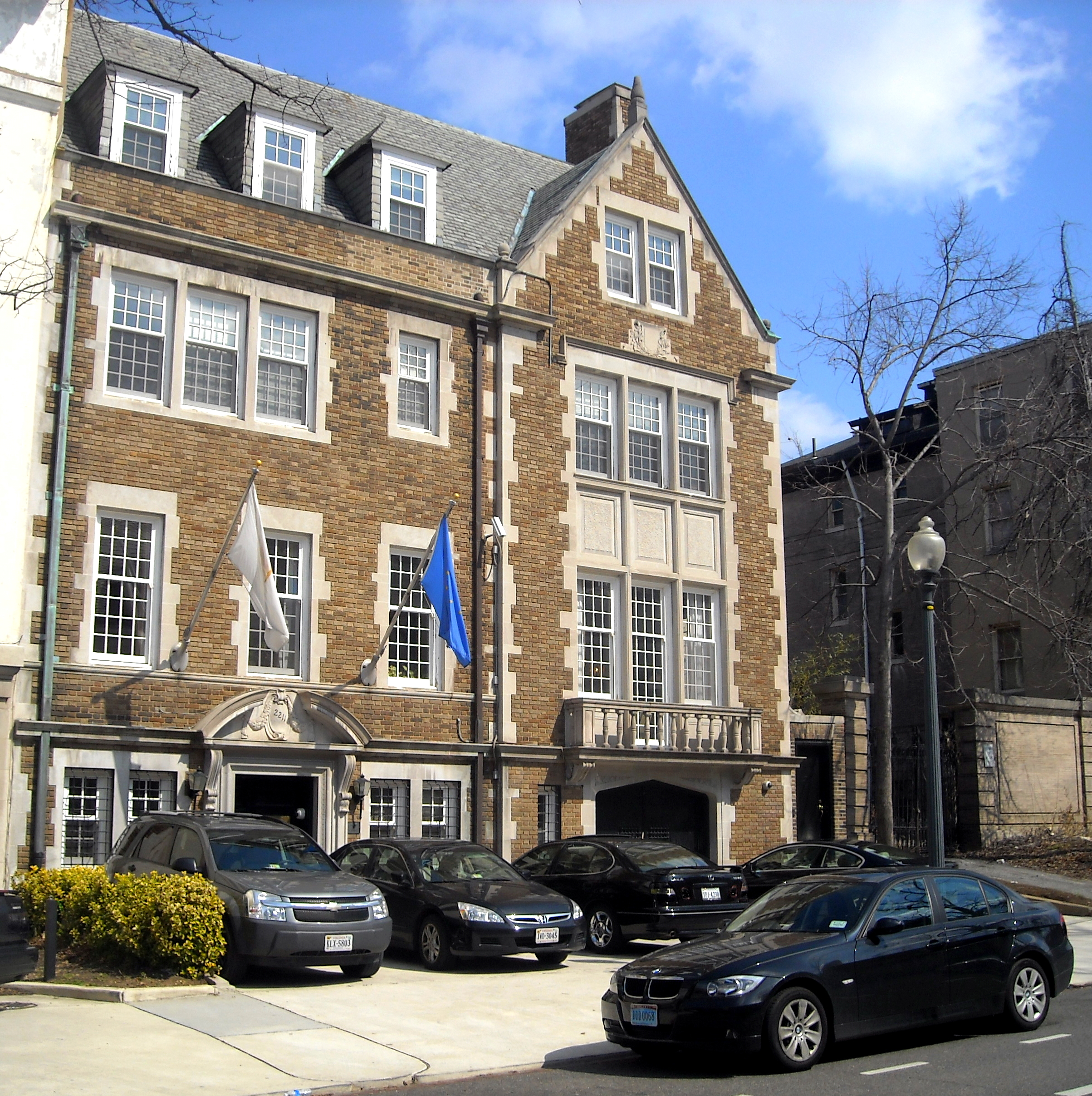 The Embassy of Cyprus in Washington, D.C. — located at 2211 R Street, N.W., in the Sheridan-Kalorama neighborhood of Washington, D.C. A contributing property to the Sheridan-Kalorama Historic District, listed on the National Register of Historic Places in Washington, D.C.. The building, a combination of Tudor Revival and Jacobethan (Jacobean Revival) architecture, valued at $5,273,190.